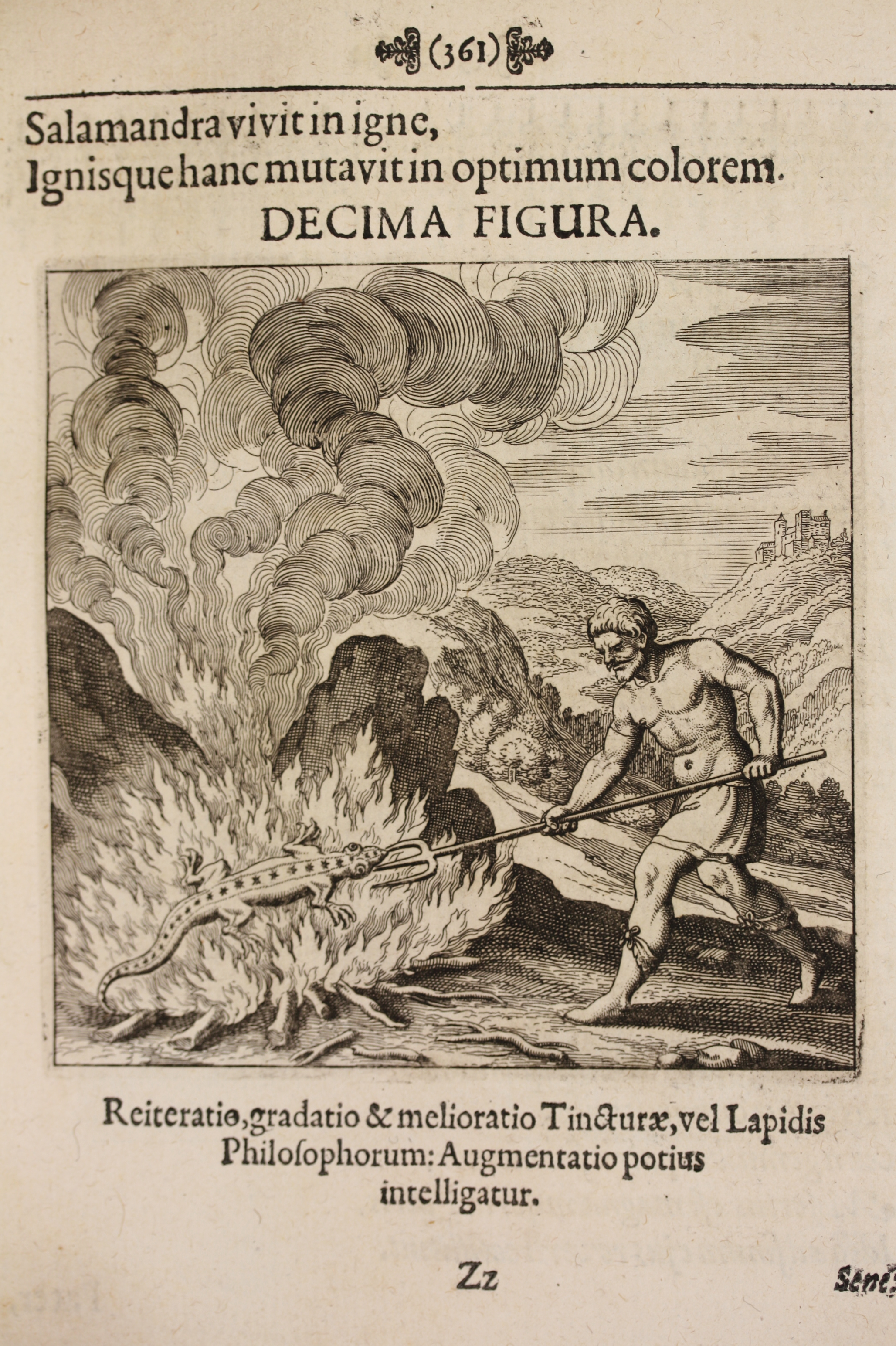 “Decima Figura” (Figure Ten), engraved by Matthaeus Merian (1593–1650). Figure 10 from Lambsprinck's De Lapide Philosophico [On the Philosopher's Stone] as published in the Musaeum hermeticum, reformatum et amplificatum. Francofurti : Apud Hermannum à Sande, 1678. In Latin. The caption on the figure reads: Salamandra vivit in igne, Ignisque hanc mutavit in optimum colorem. DECIMA FIGURA. Reiteratie, gradatio & melioratio Tincturae, vel Lapidis Philosophorum: Augmentatio potius intelligatur. Roughly translated : "Salamander lives in the fire, the fire, this has changed in the best color. / Tenth Figure. / Repetition, scale and the betterment of the dyes or the Philosophers Stone, an augmentation is rather meant." A man stands next to a fire, using a trident to poke a salamander in the fire. In the background, past a river, on a mountain, stands a castle. Alchemy has always been closely associated with metallurgy, one of mankind’s most ancient chemical industries. In fact, alchemy grew out of the trade secrets of ancient metallurgists. In the medieval period alchemists developed sophisticated, powerful techniques to separate and purify metals. Chemical manipulation of precious metals was the most notable example of alchemy’s mastery and the most promising evidence for the possibility of transmutation.